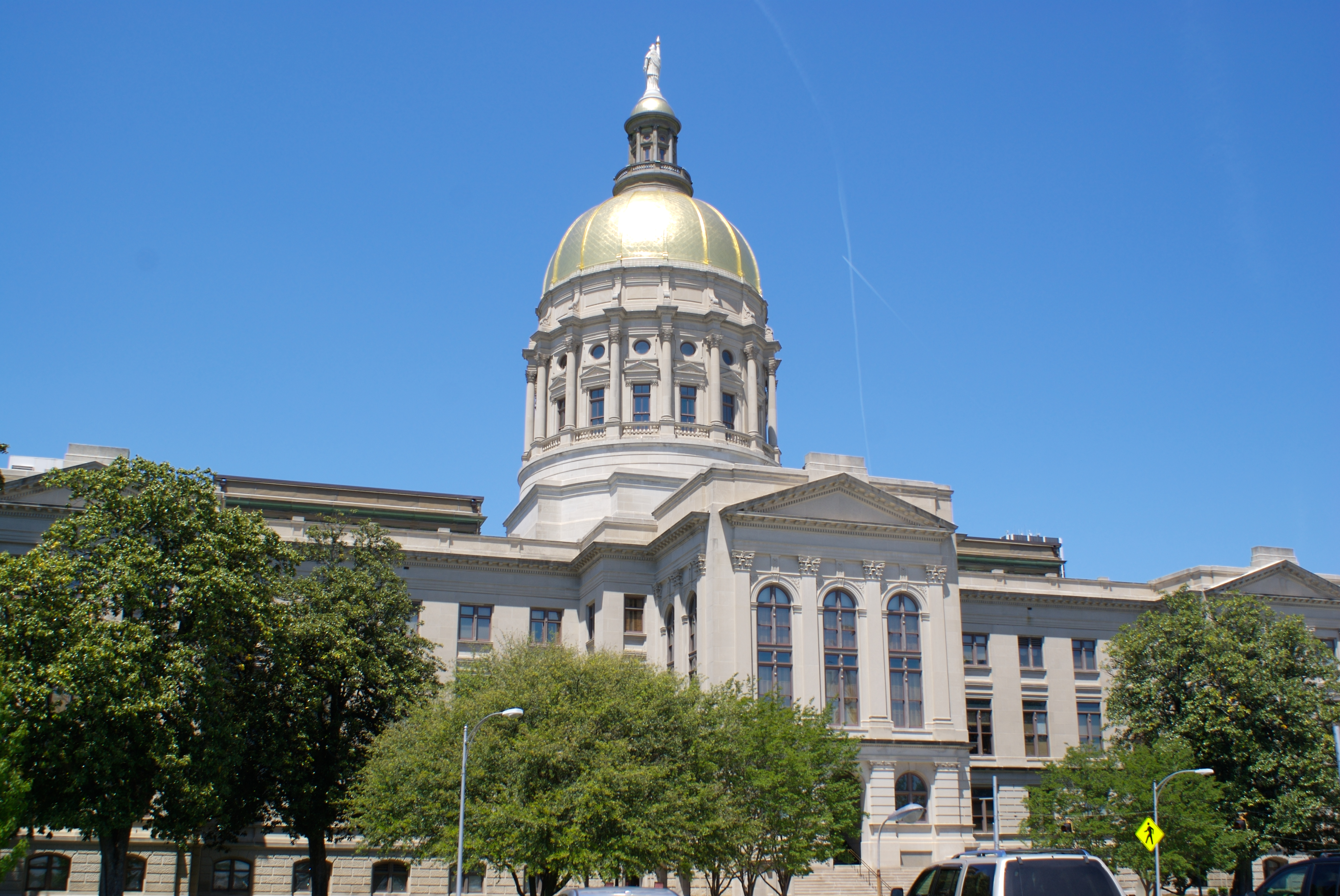 Photo of the very nice State Capitol on a very nice day.